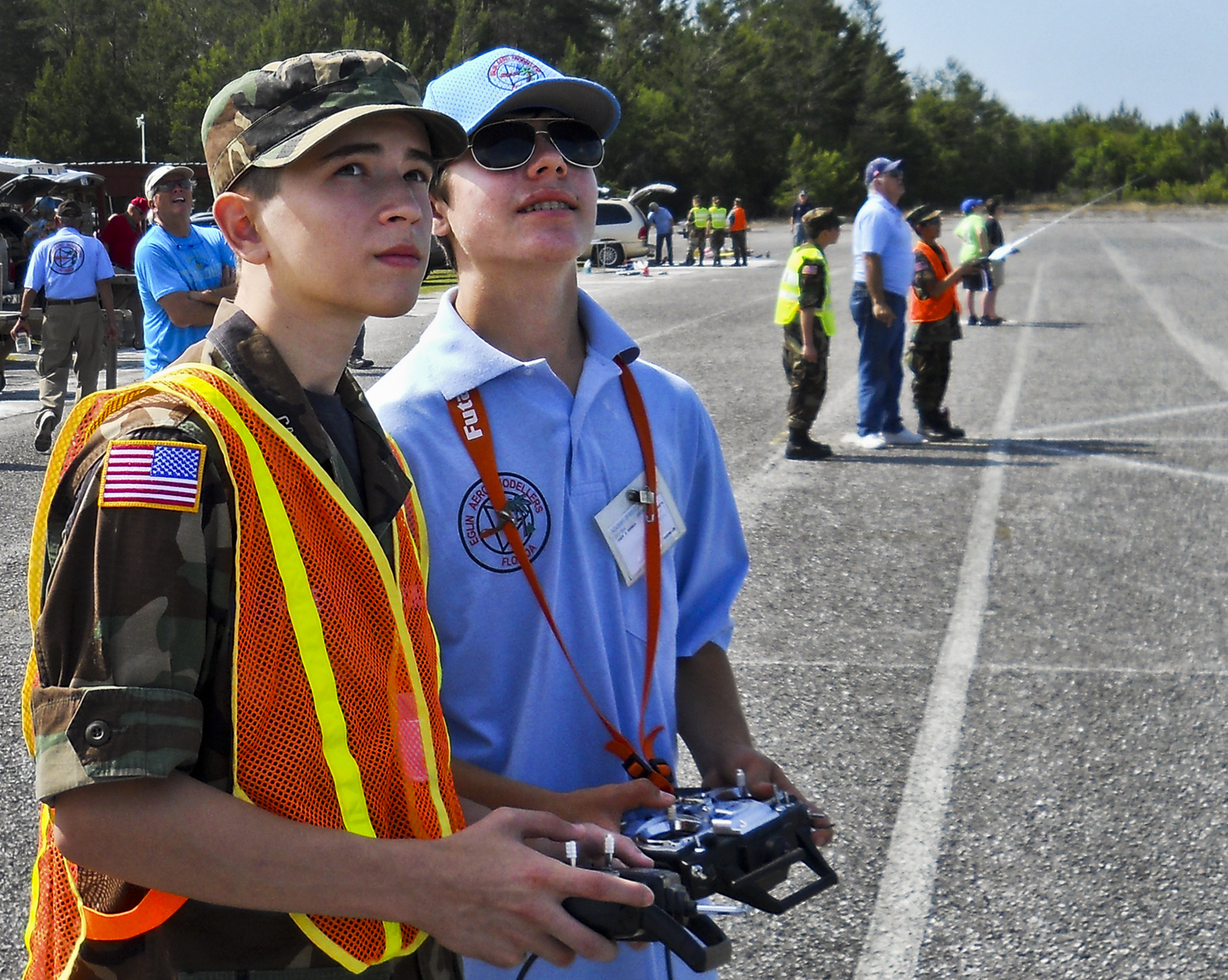 Cody Powell, the 13-year-old son of Maj. Jeff Powell, the 919th Maintenance Operations Flight commander, helps a member of Eglin's Civil Air Patrol learn to fly an radio controlled aircraft April 27. Cody has won all but one of his 15 RC aircraft competitions since he and his father joined the hobby two years ago. (Courtesy photo)